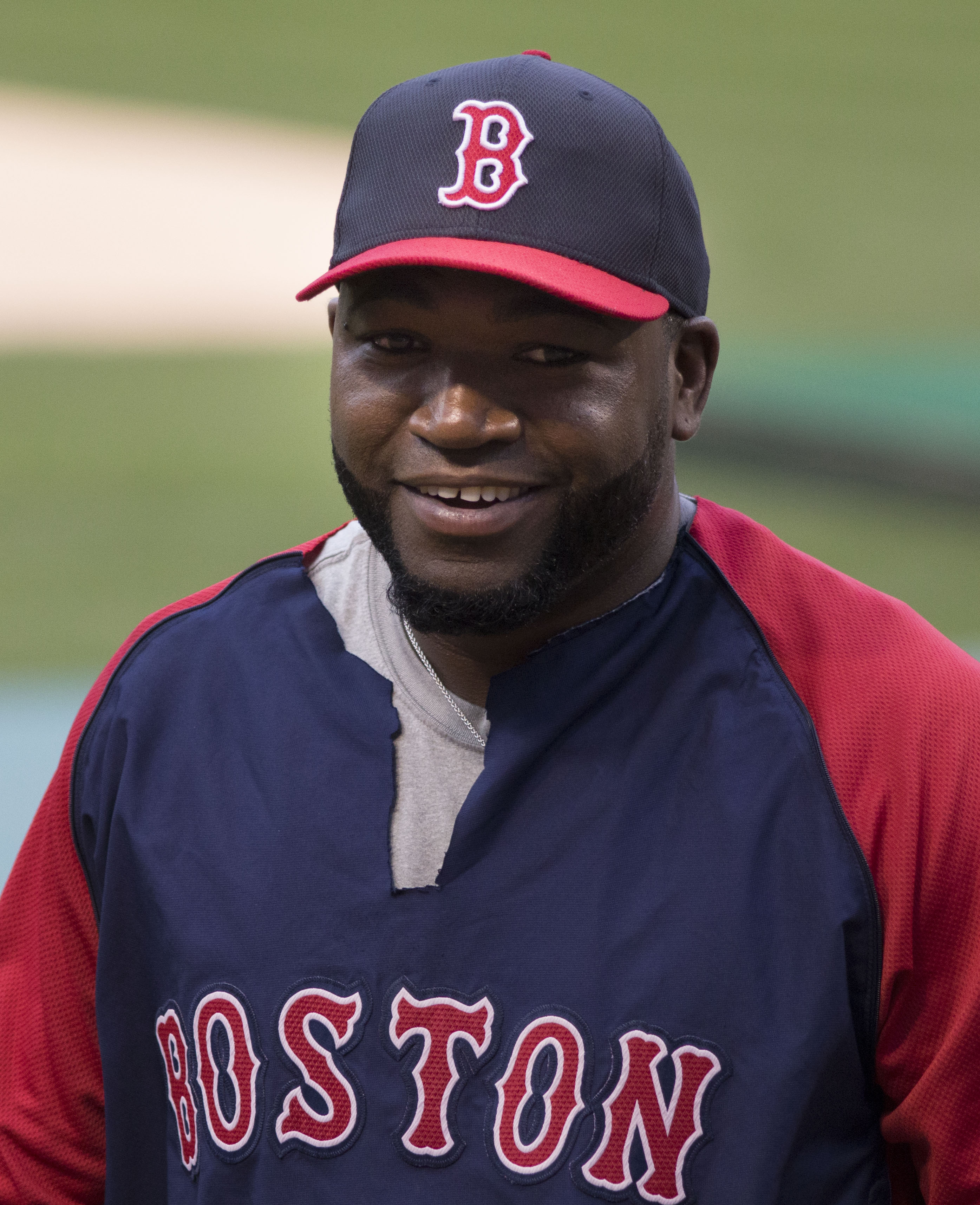 David Ortiz of the Boston Red Sox, July 27, 2013.